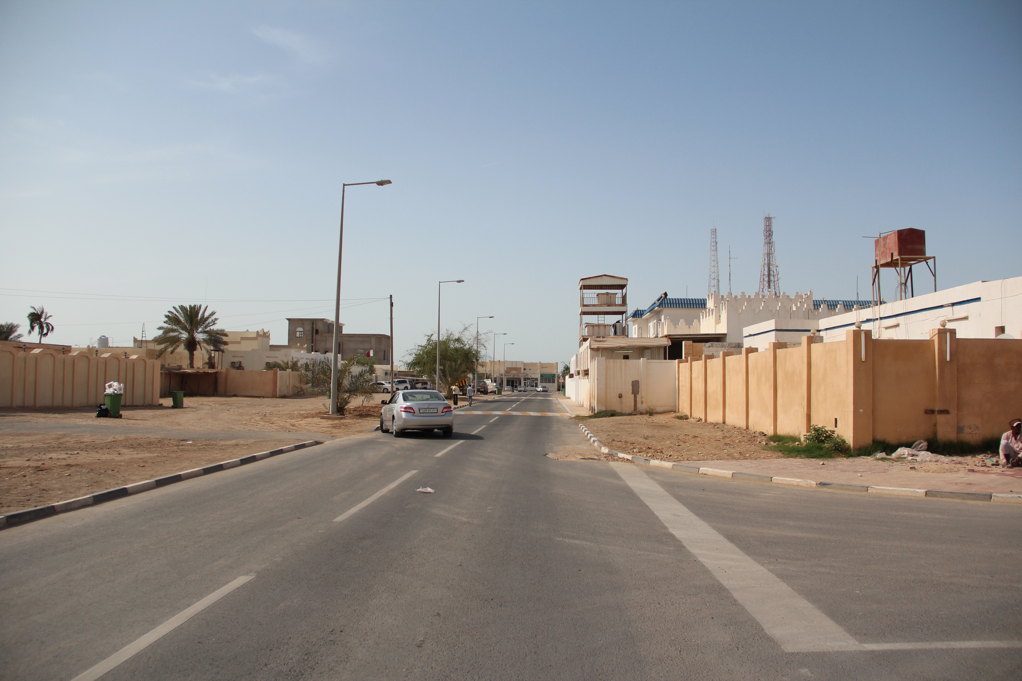 Looking towards the Al Meera Supercenter on Mesaika Street from Al Baratha Street in Madinat Ash Shamal in northern Qatar.